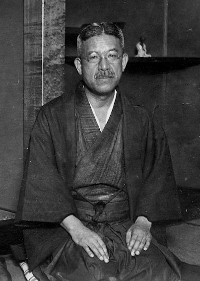 Takejirō Tokonami